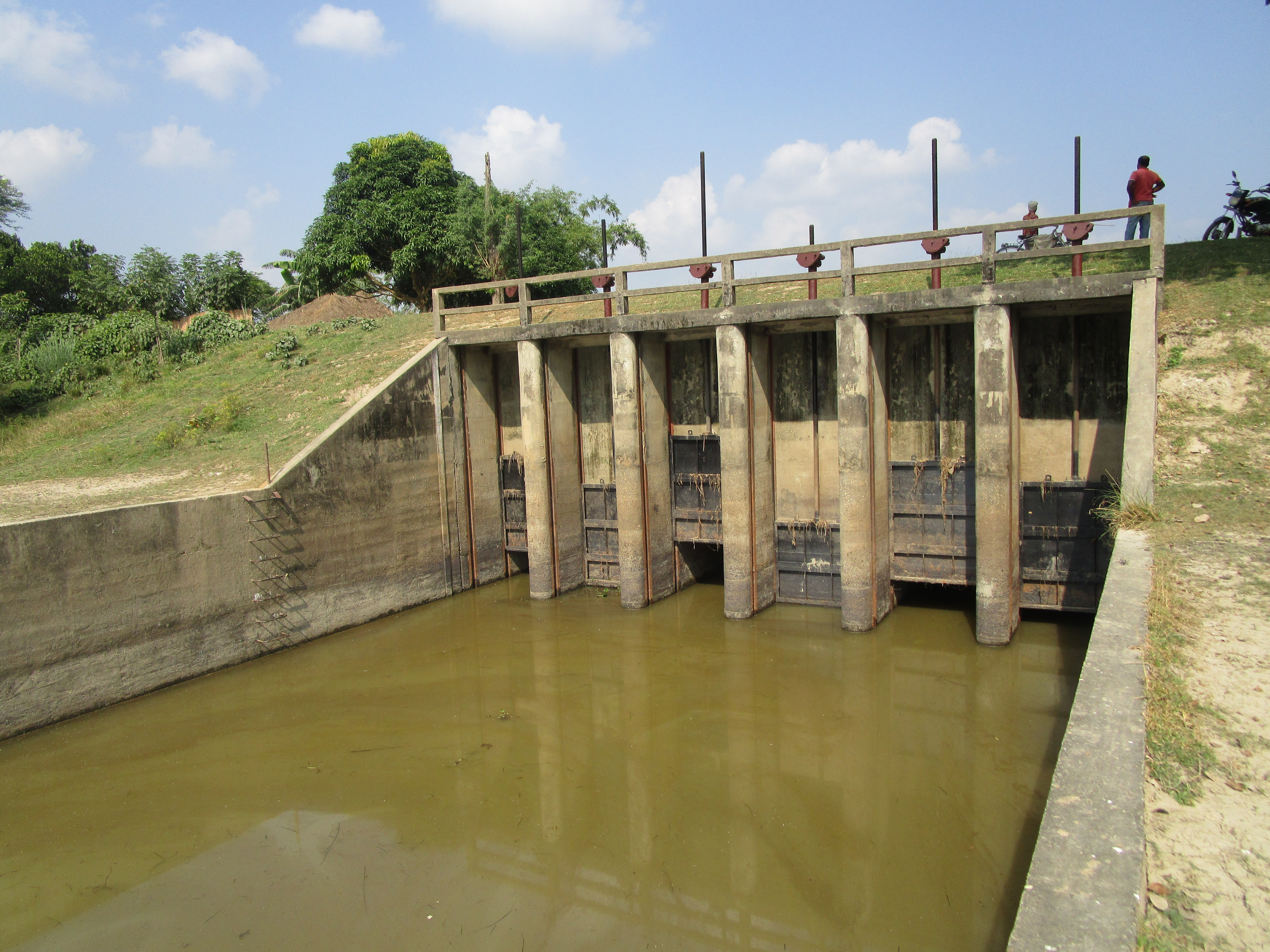 A sluice gate beside the Nagor River at the village Kandhal of Haripur Upazila.